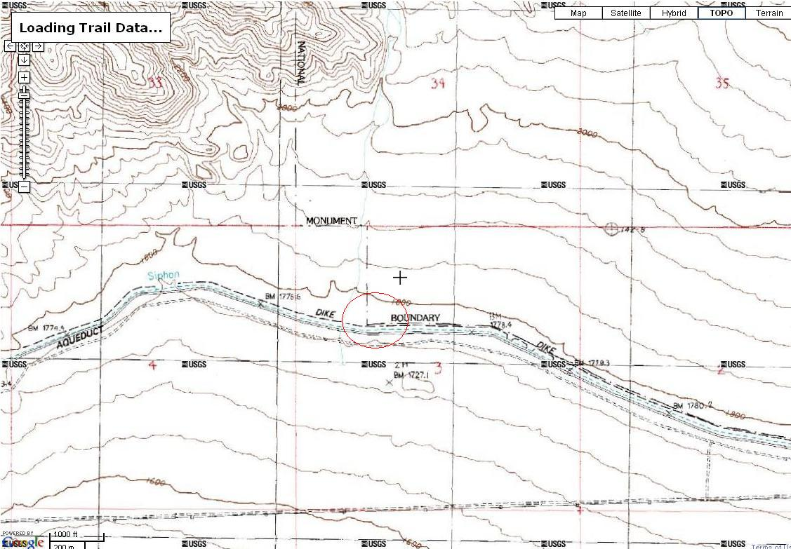 Topo map showing lowest elevation location (red oval 33° 41' 0.99" N, 115° 50' 33" W) in Joshua Tree National Park. The Colorado River Aqueduct continues to flow to the northwest, but must be pumped uphill through that location.